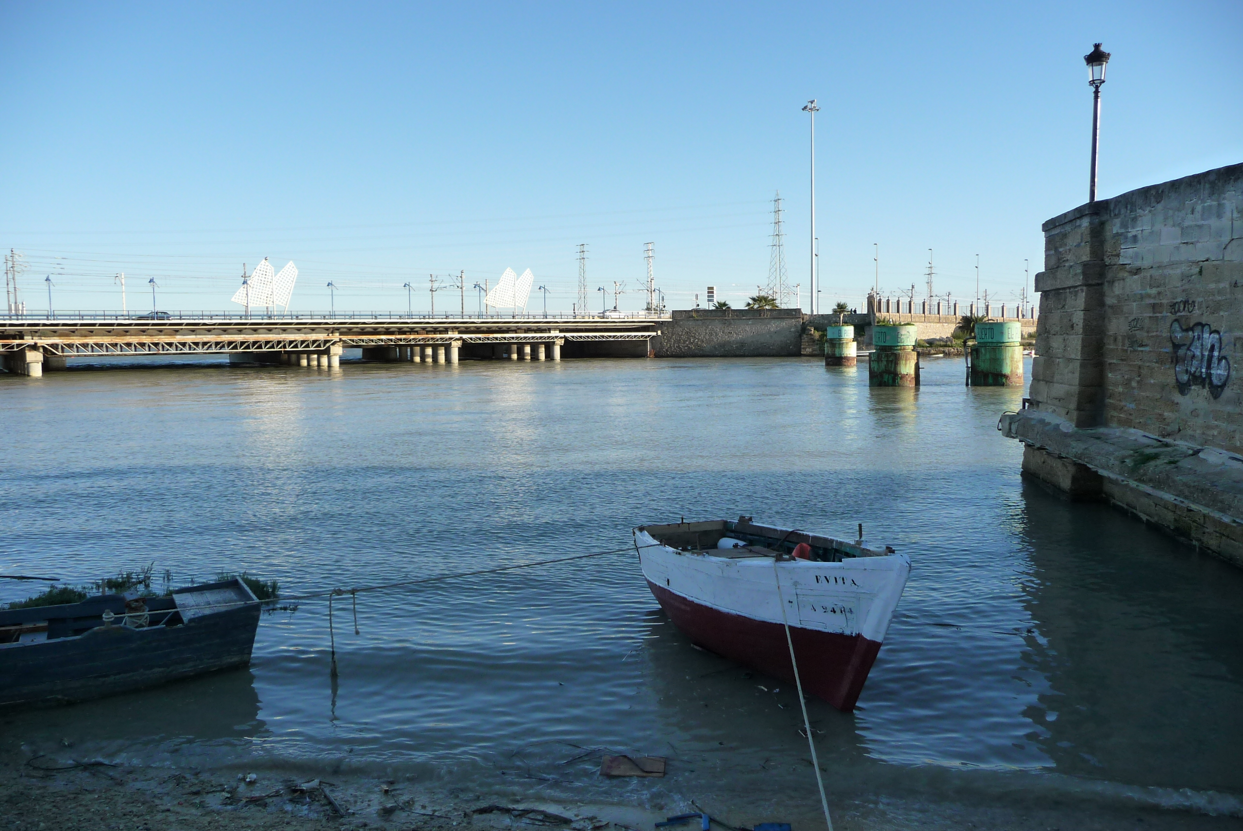 Guadalete river. El Puerto de Santa María (Andalusia, Spain).